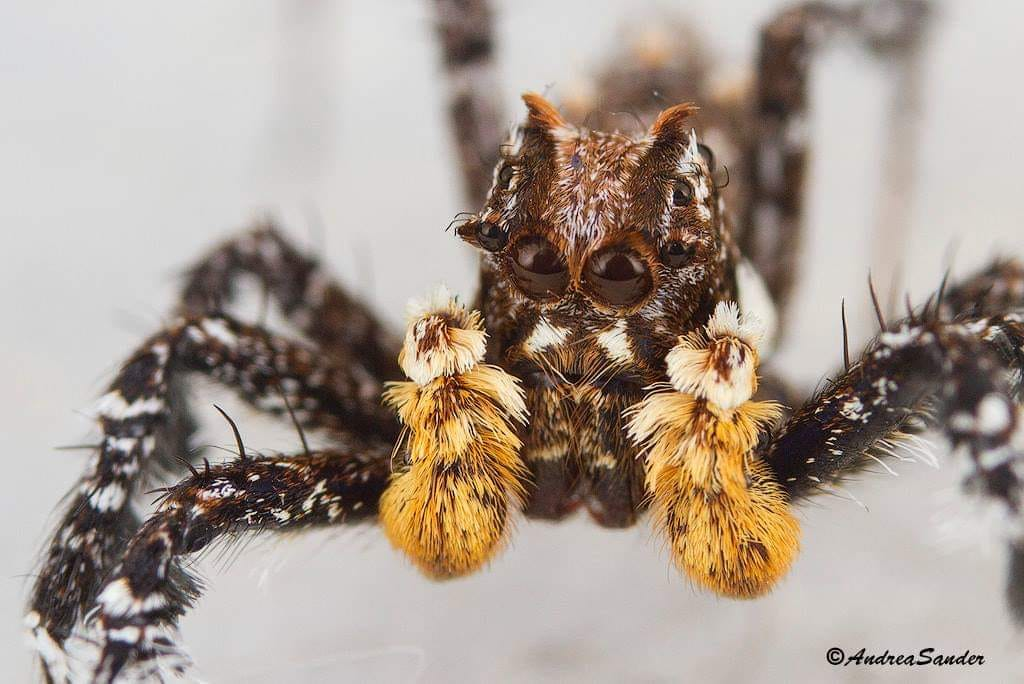 Portia schultzi - Westville, Durban, South Africa